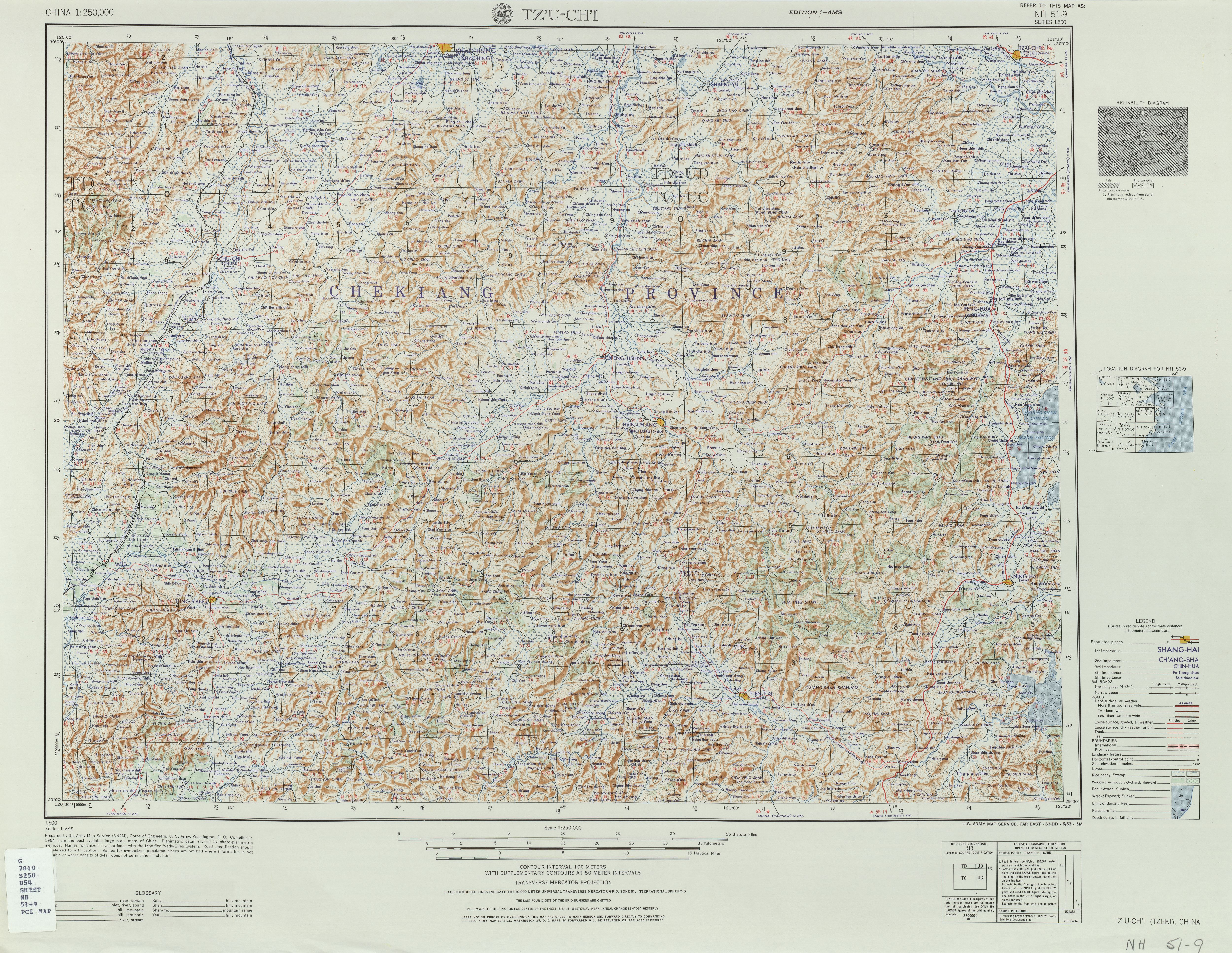 Map of Cixi (Tz’u-ch’i, Tzeki), Zhejiang from China AMS Topographic Maps series